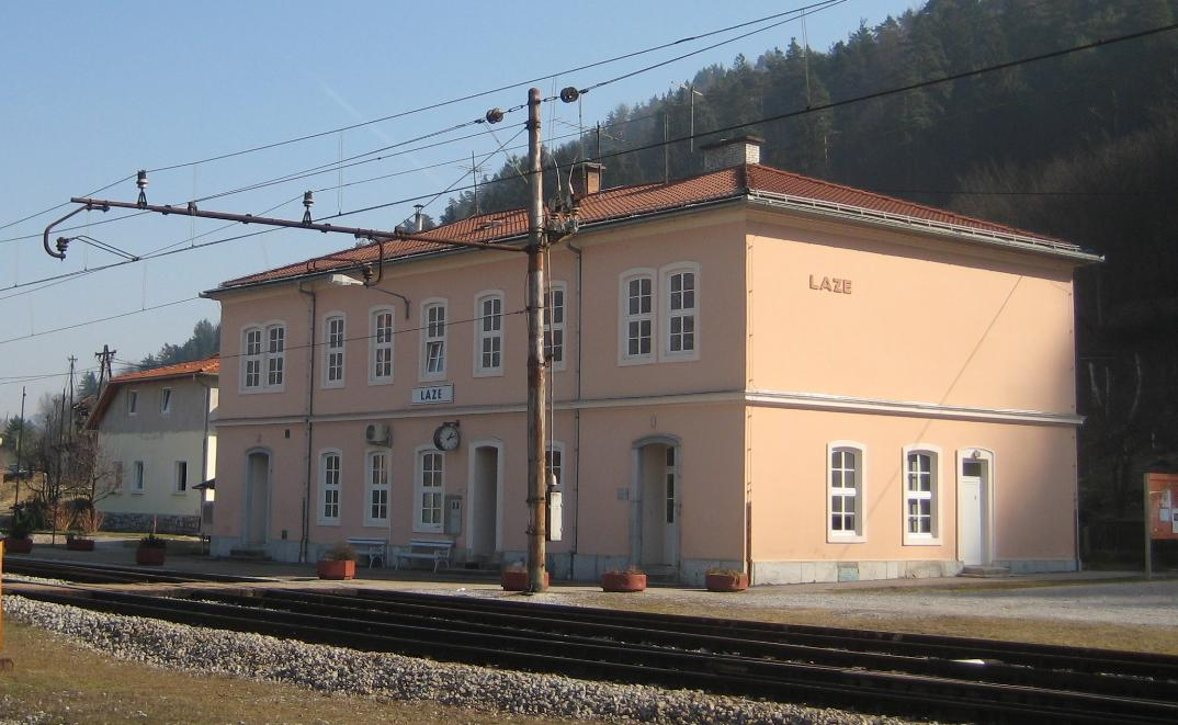 Laze Railway Station, Slovenia, serving the village Laze in Dol pri Ljubljani municipality